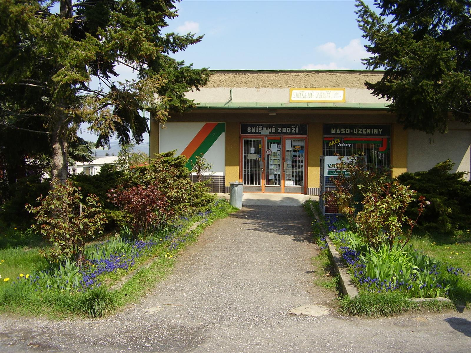 Shop in Lhotka in Beroun district